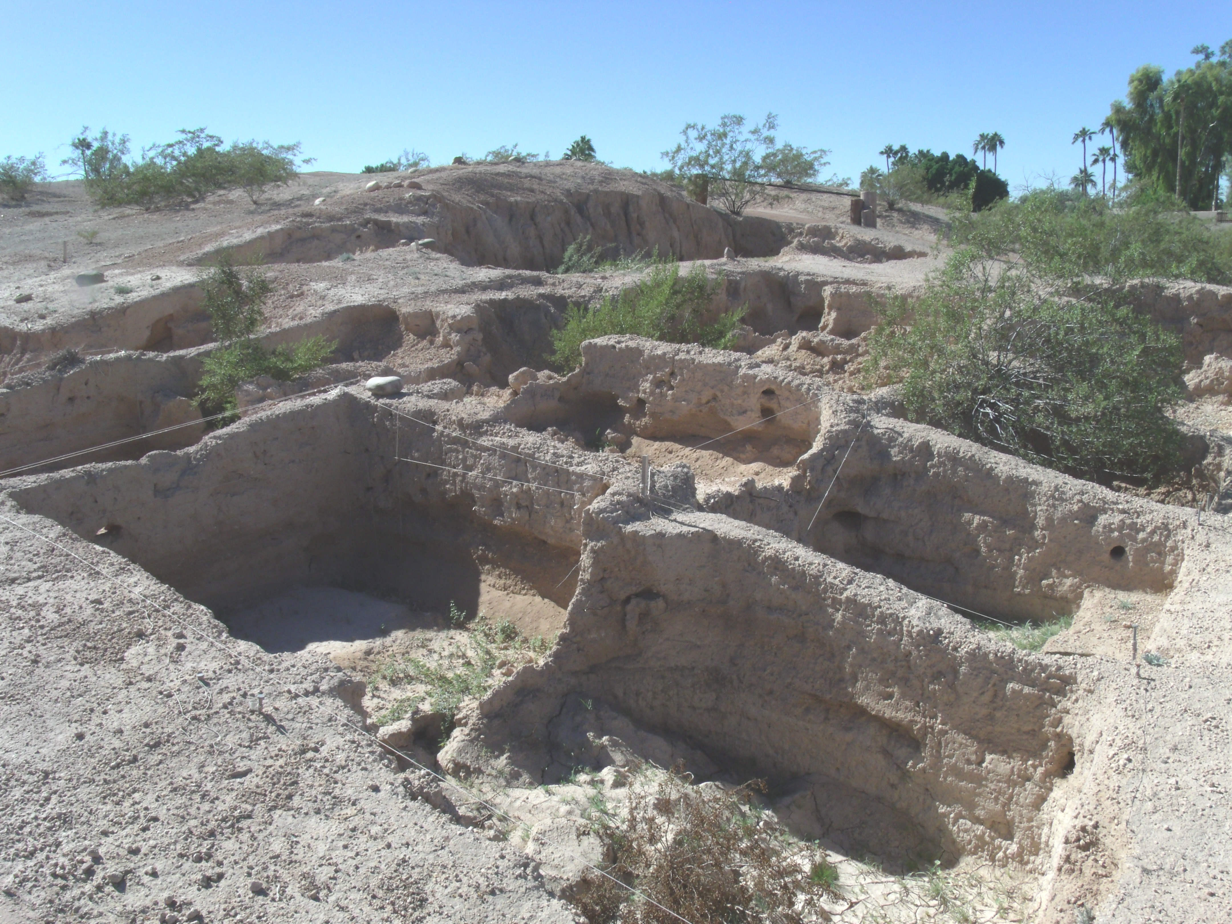 A large plaza in front of the Mesa Grande Temple mound which was enclosed by a large adobe wall. The plaza is located in the Mesa Grande Cultural Park at 1000 N. Date St. The Mesa Grande Cultural Park was listed in the National Register of Historic Places in November 21, 1978, reference number 78000549.